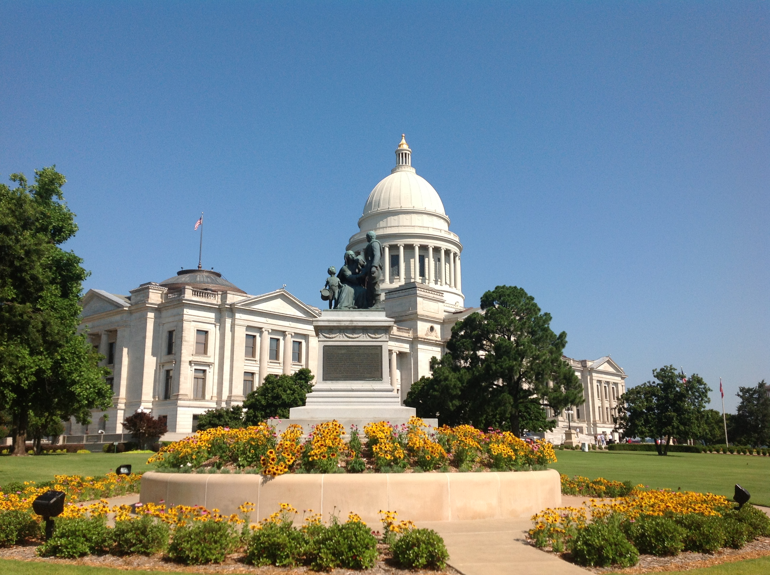 Confederate Women of Arkansas Monument with Arkansas State Capitol in the background